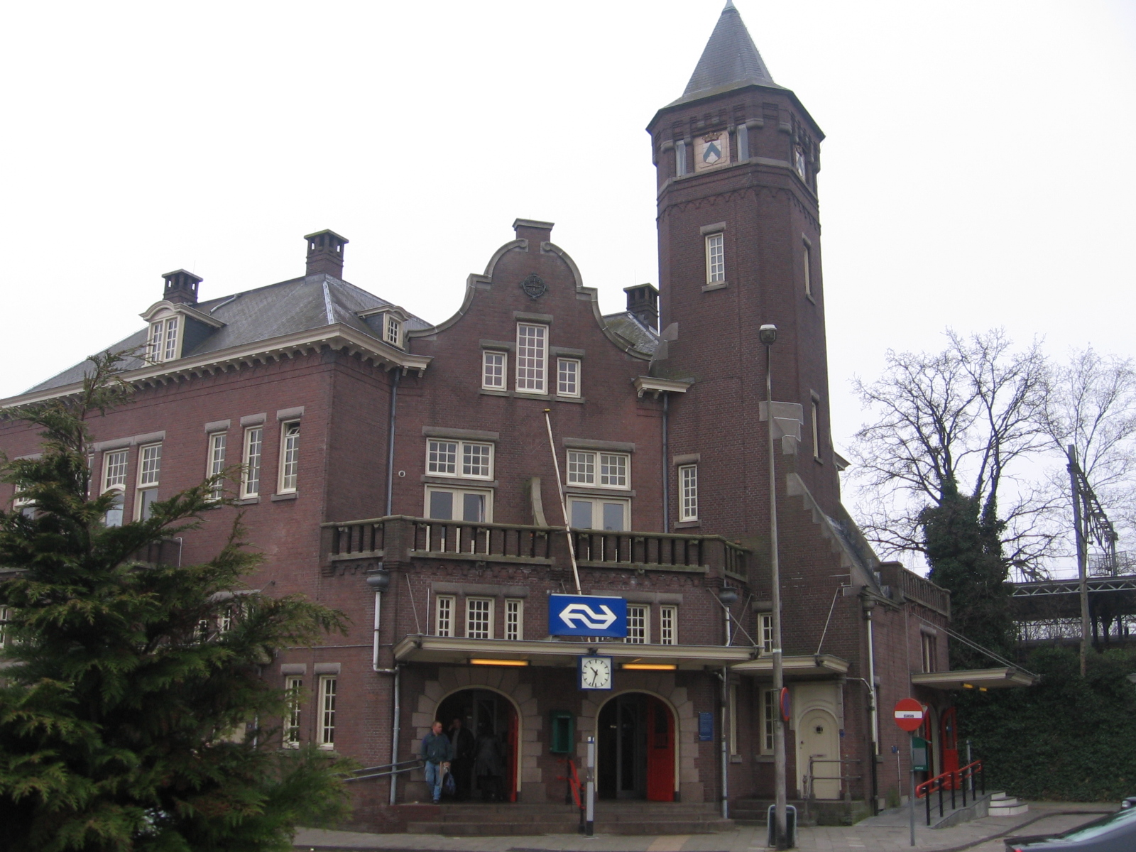 station Weert